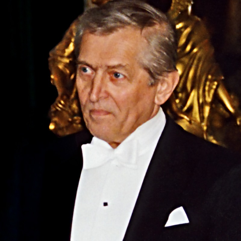 Andrzej Hiolski (baritone). Photo taken during the concert at the Polish Library in Paris, (France)